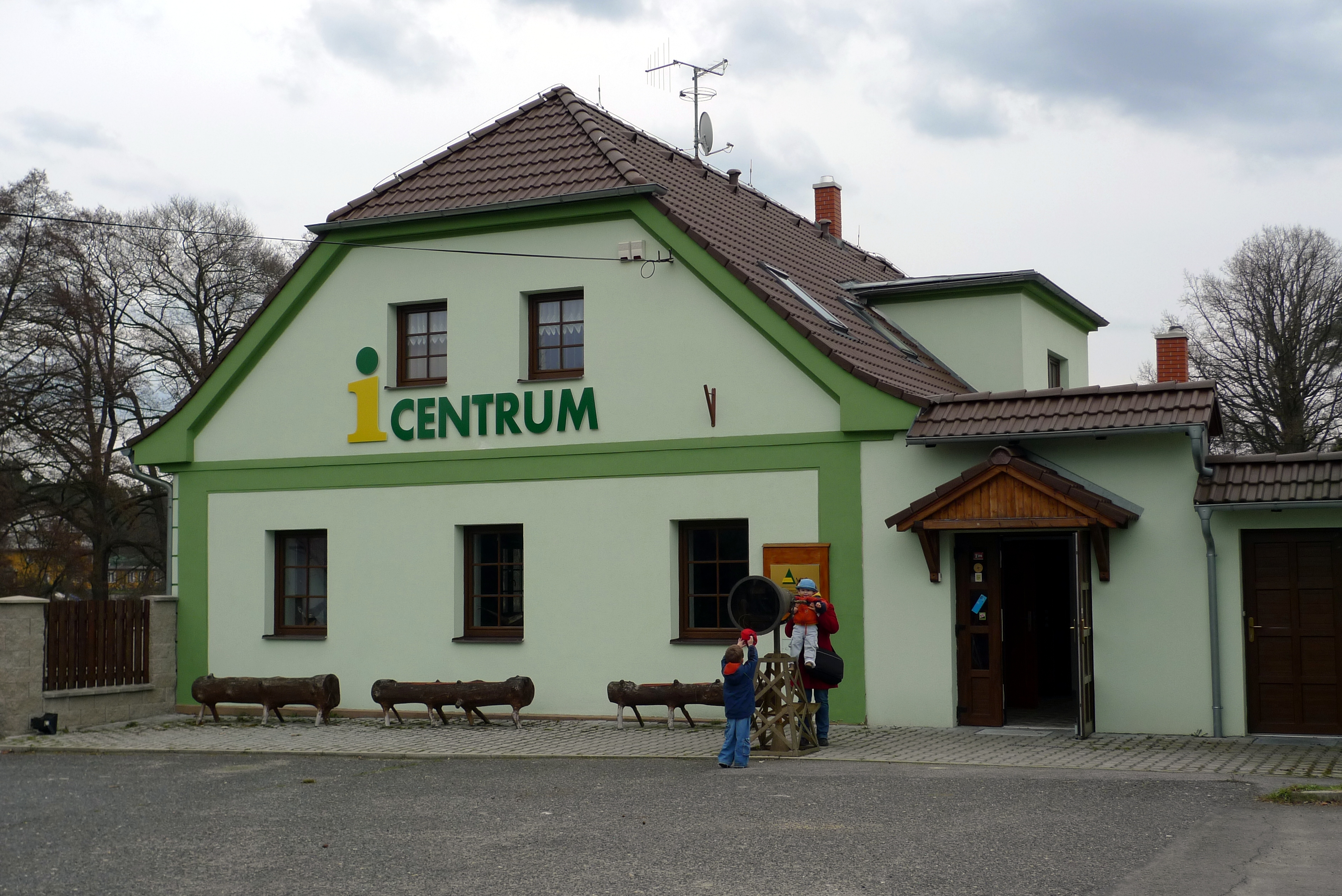 Infocenter VLS in Ralsko-Hradčany, Czech Republic